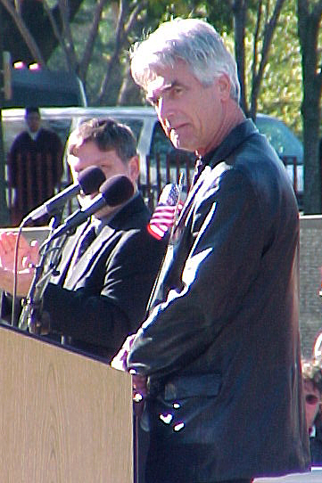 Sam Elliott at the Veterans Day Ceremonies at the Vietnam Veterans Memorial, November 2001